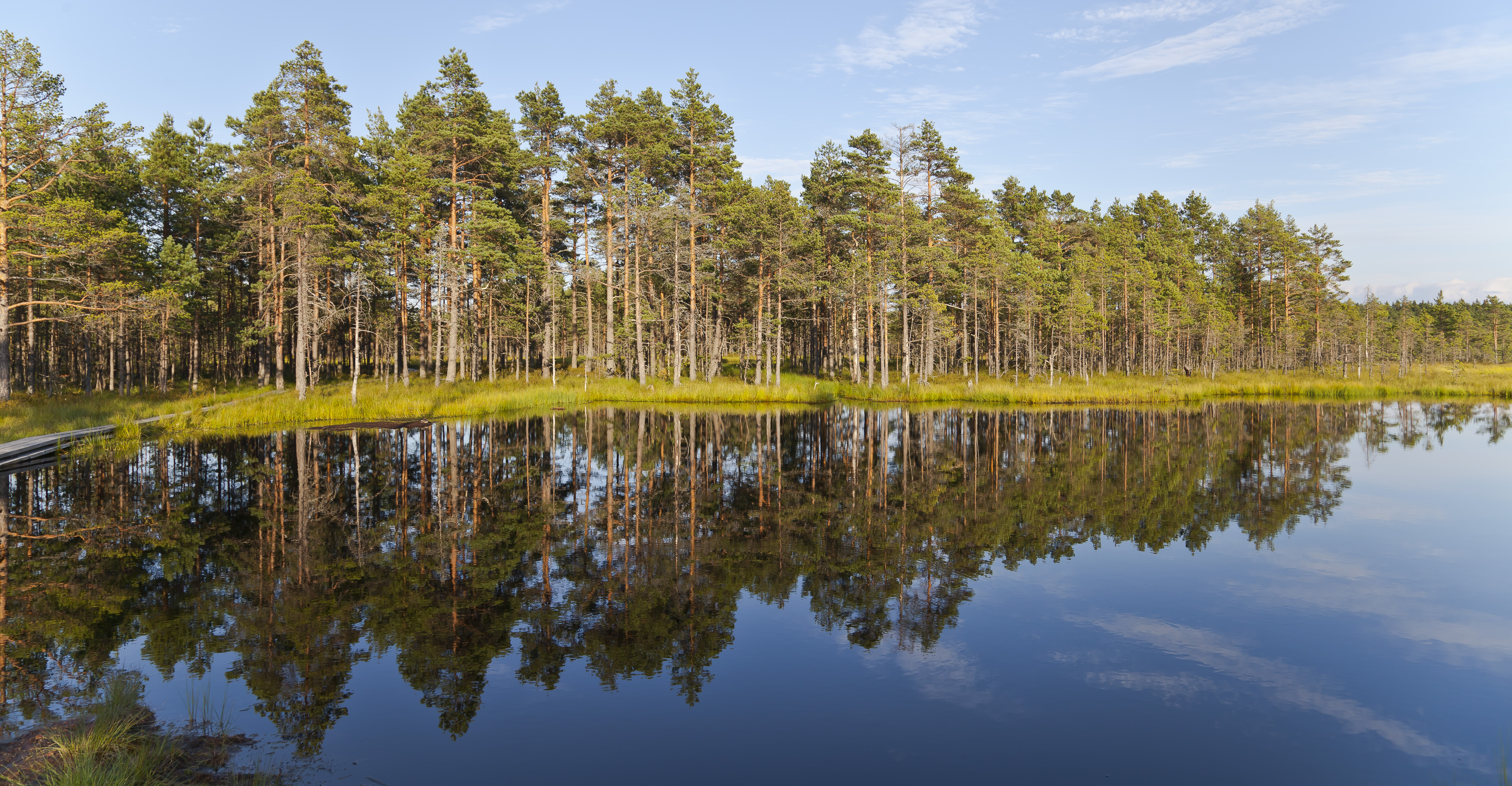 Viru bog, Lahemaa National Park, Estonia